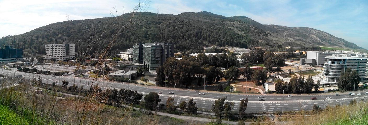 View of Yokneam's high-tech area